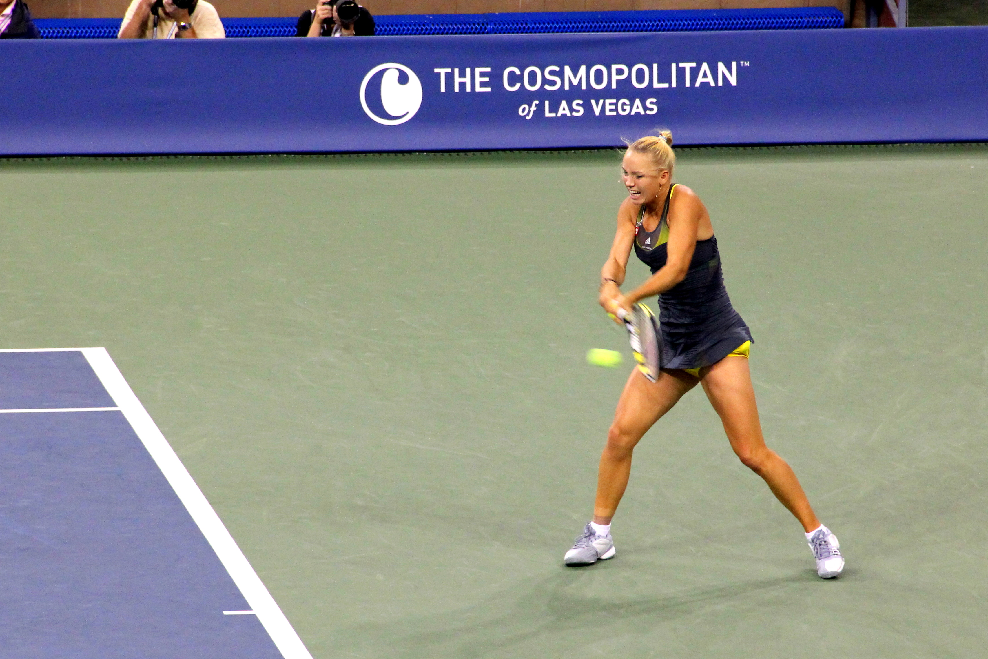 Caroline Wozniacki on Wednesday at the US Open where she won against Dominika Cibulkova. The Cosmopolitan is in New York for the 2010 US Open, inviting attendees and guests to experience signature views from our Overlook and in our custom designed suite with prime-stadium seating. For more information on The Cosmopolitan visit